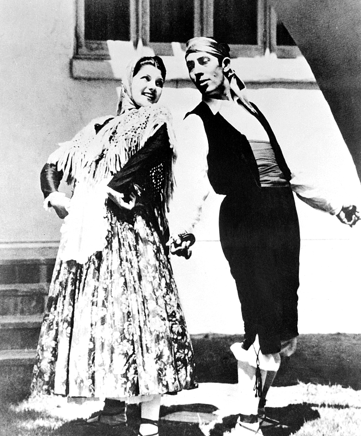 Photograph of Margarita Cansino (Rita Hayworth) at age 16 with her father and dancing partner Eduardo Cansino